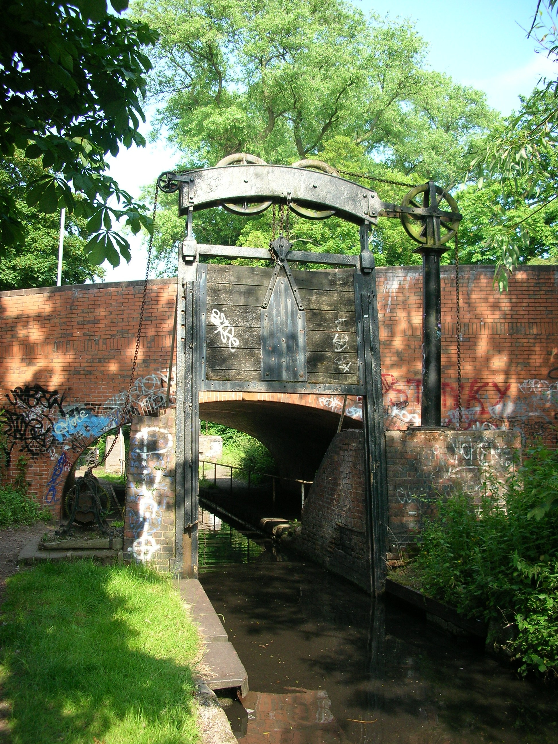 The west gate of the guillotine stop lock at Lifford Lane, Kings Norton, Birmingham, England. This lock was constructed to prevent water loss between the Stratford-upon-Avon Canal and the Worcester and Birmingham Canal which meet 200 metres to the west of the lock. These gates, dating from 1814, and replacing a more conventional four gate, wide stop lock, are now permanently open as both canals are operated by British Waterways. The lock is Grade II* listed and also a Scheduled Ancient Monument. Photographed by me 10 June 2007. Oosoom See also Image:Lifford Lane Guillotine Stop Lock east.jpg